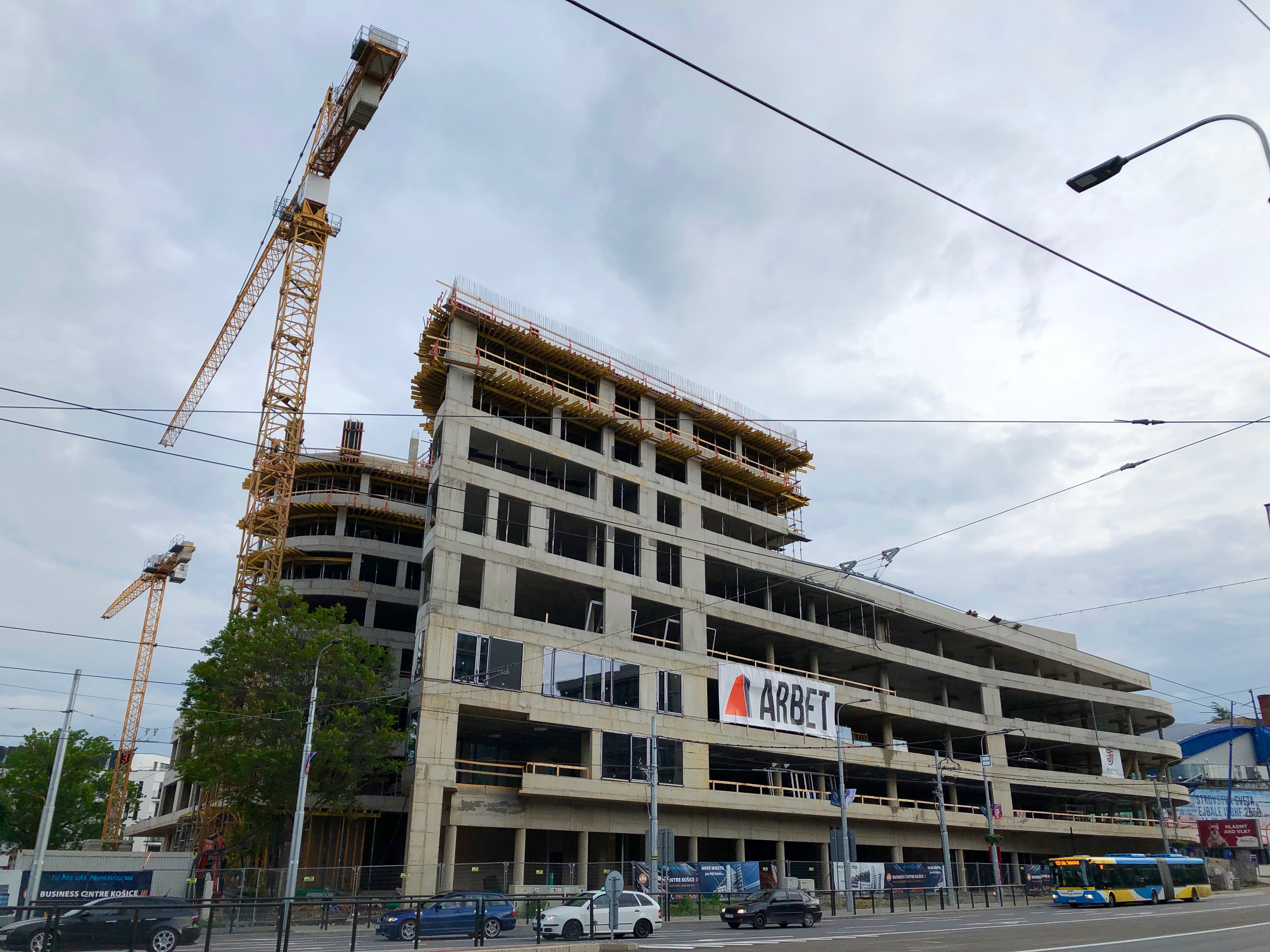 Business Centre Košice III - construction